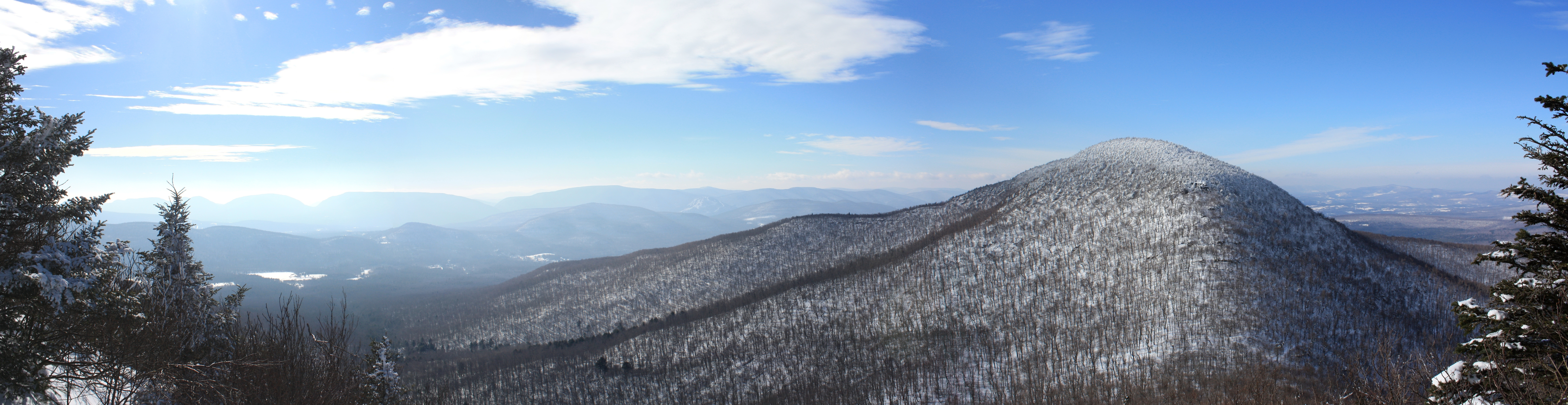 Panorama from Blackhead Mountain